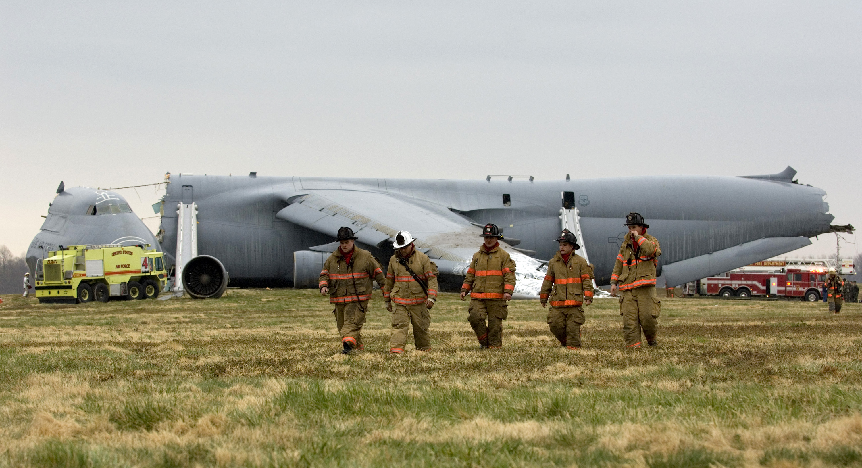 C-5 Galaxy crash at Dover Air Force Base, Emergency responders are on the scene of a C-5 Galaxy crash April 3, 2006 at Dover Air Force Base, Delaware.